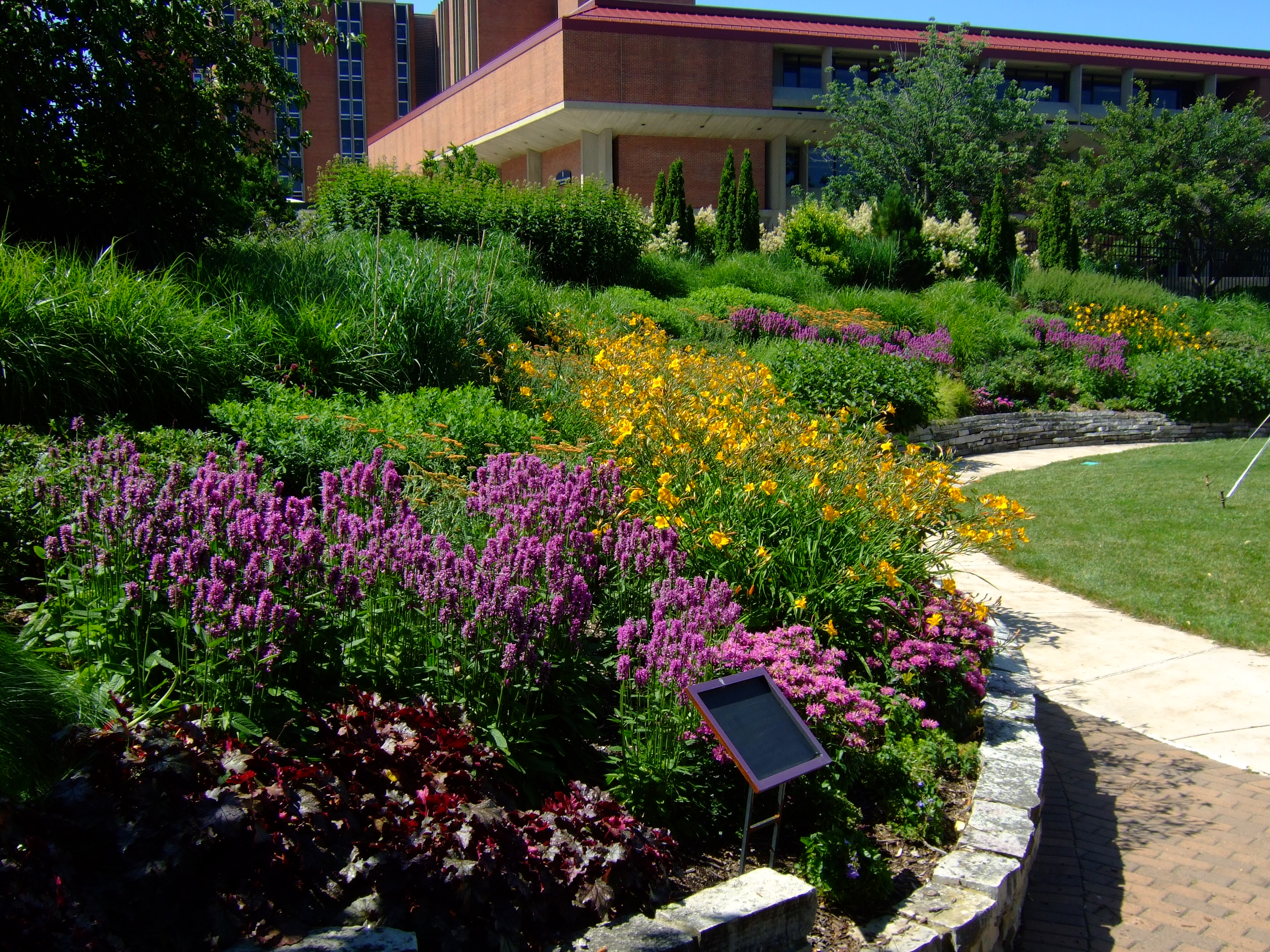 Allen Centennial Gardens and Steenbock Library on the campus of the University of Wisconsin-Madison.